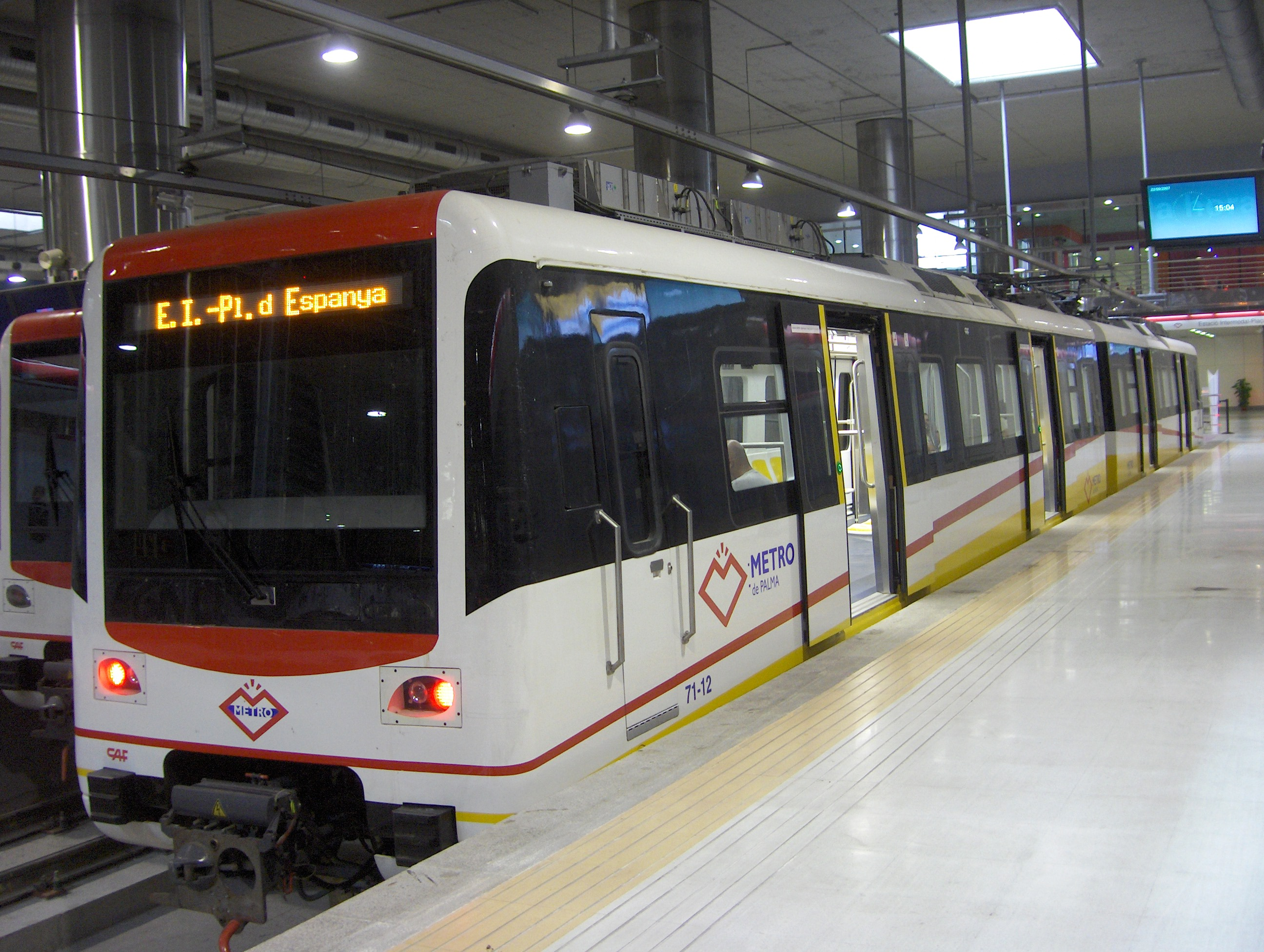 A train of the Metro de Palma in the Estació Intermodal